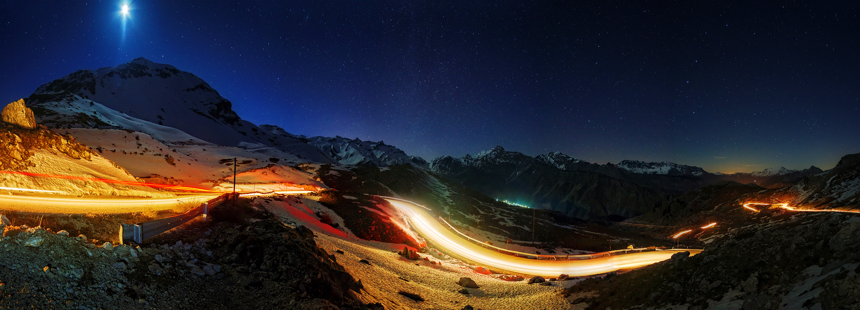 Panorama of Tzoumerka mountains under the moonlight. Created with eight vertical shots under the moonlight and the lights of a passing vehicle. In the center of the photo is the village Theodoriana.